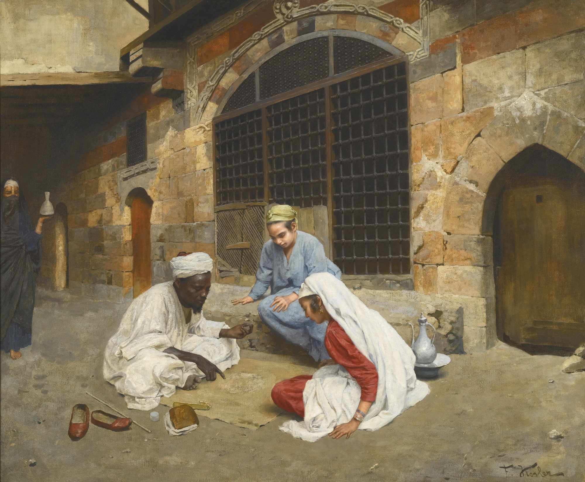 The Fortune Teller of Cairo